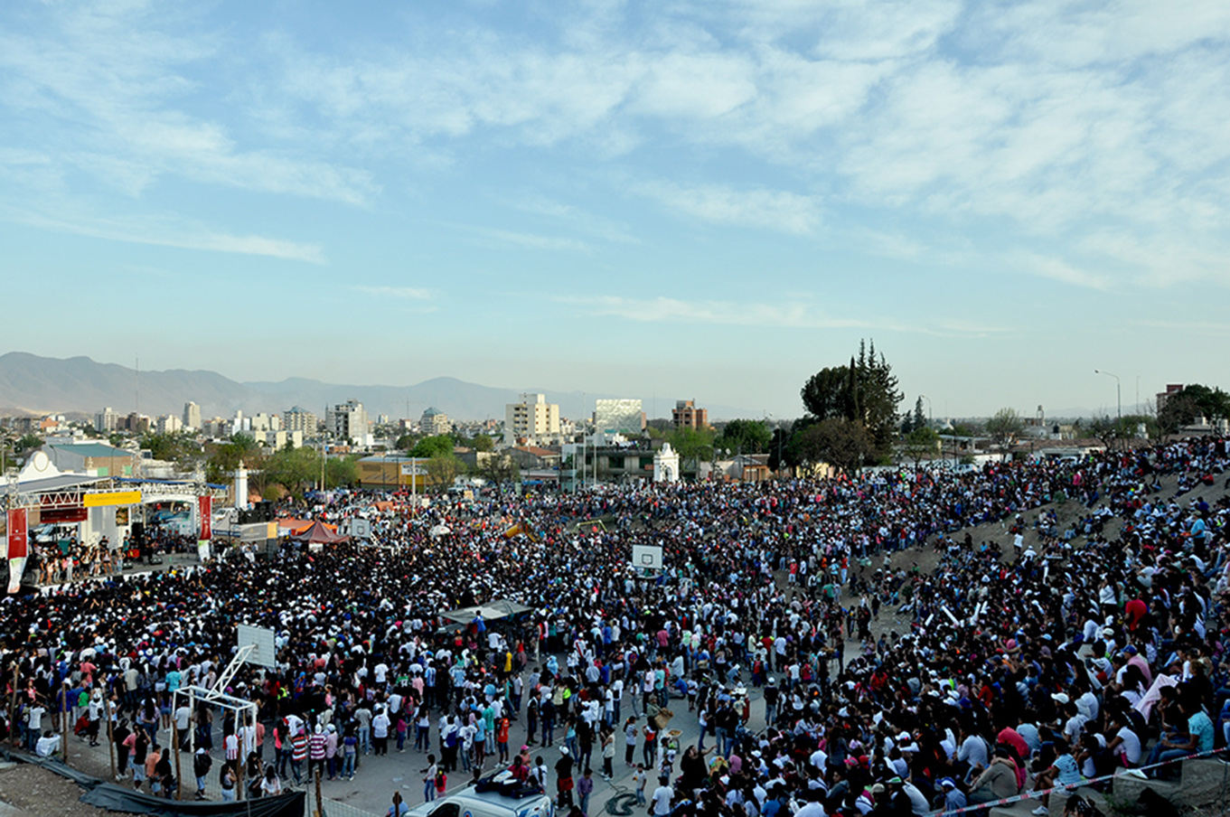 Anfiteatro Eduardo Falú, Plaza España. Salta